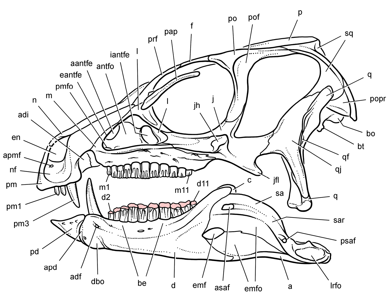 Original description: Skull of Heterodontosaurus tucki from the Lower Jurassic Upper Elliot and Clarens formations of South Africa. New skull reconstruction in lateral view showing the dentition with intermediate wear (scleral ring not shown). Pink tone indicates wear facets. Abbreviations: a angular aantfe accessory antorbital fenestra adf anterior dentary foramen adi arched diastema antfo antorbital fossa apd articular surface for the predentary apmf anterior premaxillary foramen asaf anterior surangular foramen be buccal emargination bo basioccipital bt basal tubera c coronoid d dentary d2, d11 dentary tooth 2, 11 dbo dentary boss eantfe external antorbital fenestra emf external mandibular fenestra emfo external mandibular fossa en external naris f frontal iantfe internal antorbital fenestra j jugal jfl jugal flange jh jugal horn l lacrimal lrfo lateral retroarticular fossa m maxilla m1, 11 maxillary tooth 1, 11 n nasal nf narial fossa p parietal pap palpebral pd predentary pm premaxilla pm1, 3 premaxillary tooth 1, 3 pmfo promaxillary fossa po postorbital pof postorbital fossa popr paroccipital process prf prefrontal psaf posterior surangular foramen q quadrate qf quadrate foramen qj quadratojugal sa surangular sar surangular ridge sq squamosal.